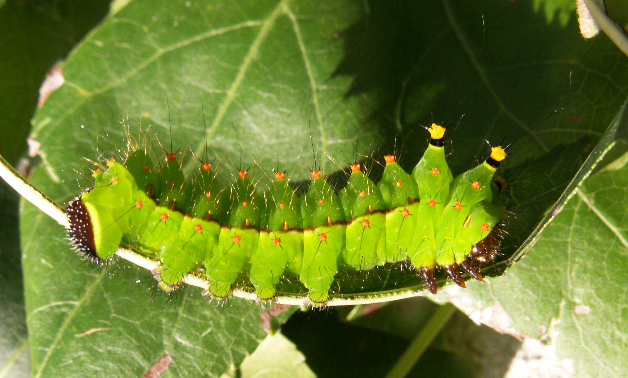 Actias selene 4th instar reared on American Sweetgum. Taken and raised by Shawn Hanrahan.